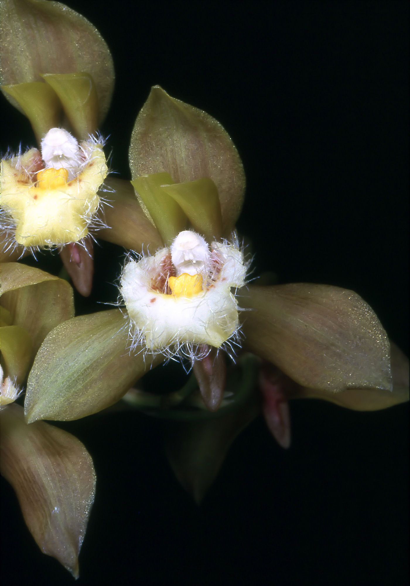 Bifrenaria charlesworthii